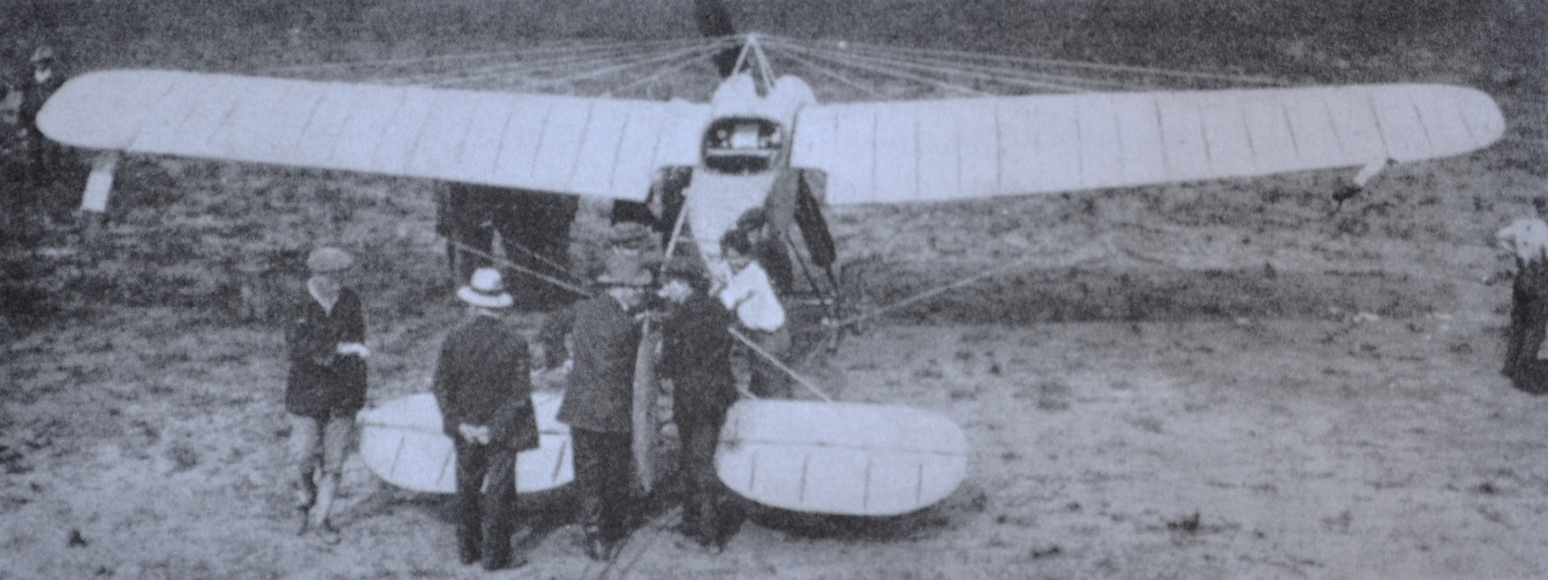 Italian pioneer biplane Caproni Ca.13; this example, known as "Milano I", was donated by Caproni to the Società Italiana Aviazione (Italian Aviation Society) in July 1912